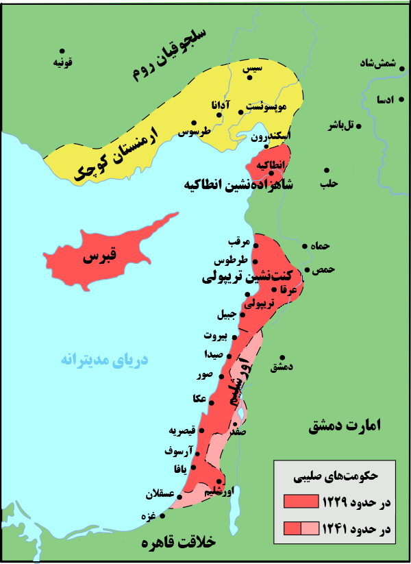 A political map of the Near East from 1229 until 1241 CE.